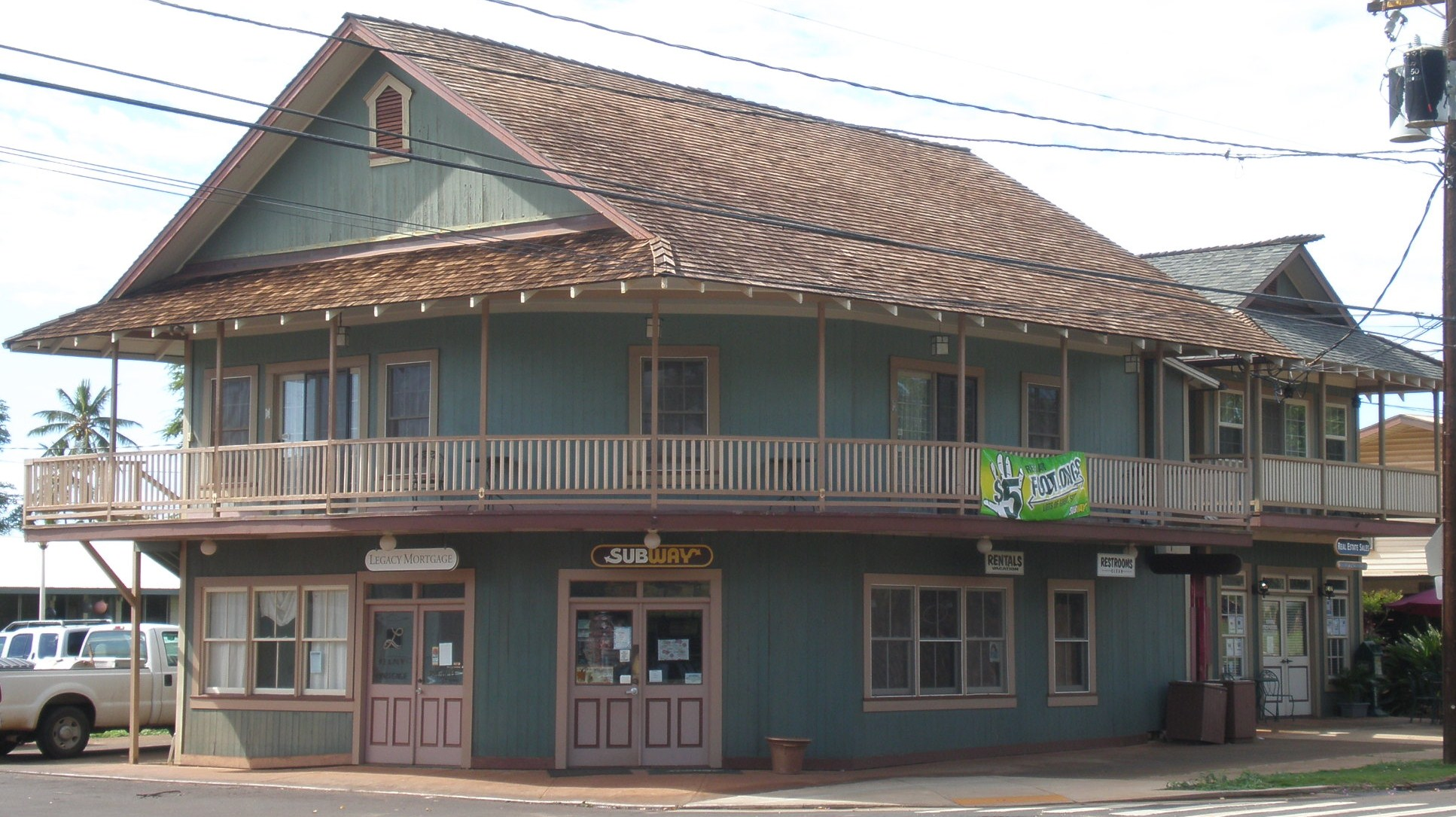 Yamase Building, 4493 Moana Rd., Waimea, Kauai, Hawaii, on National Register of Historic Places